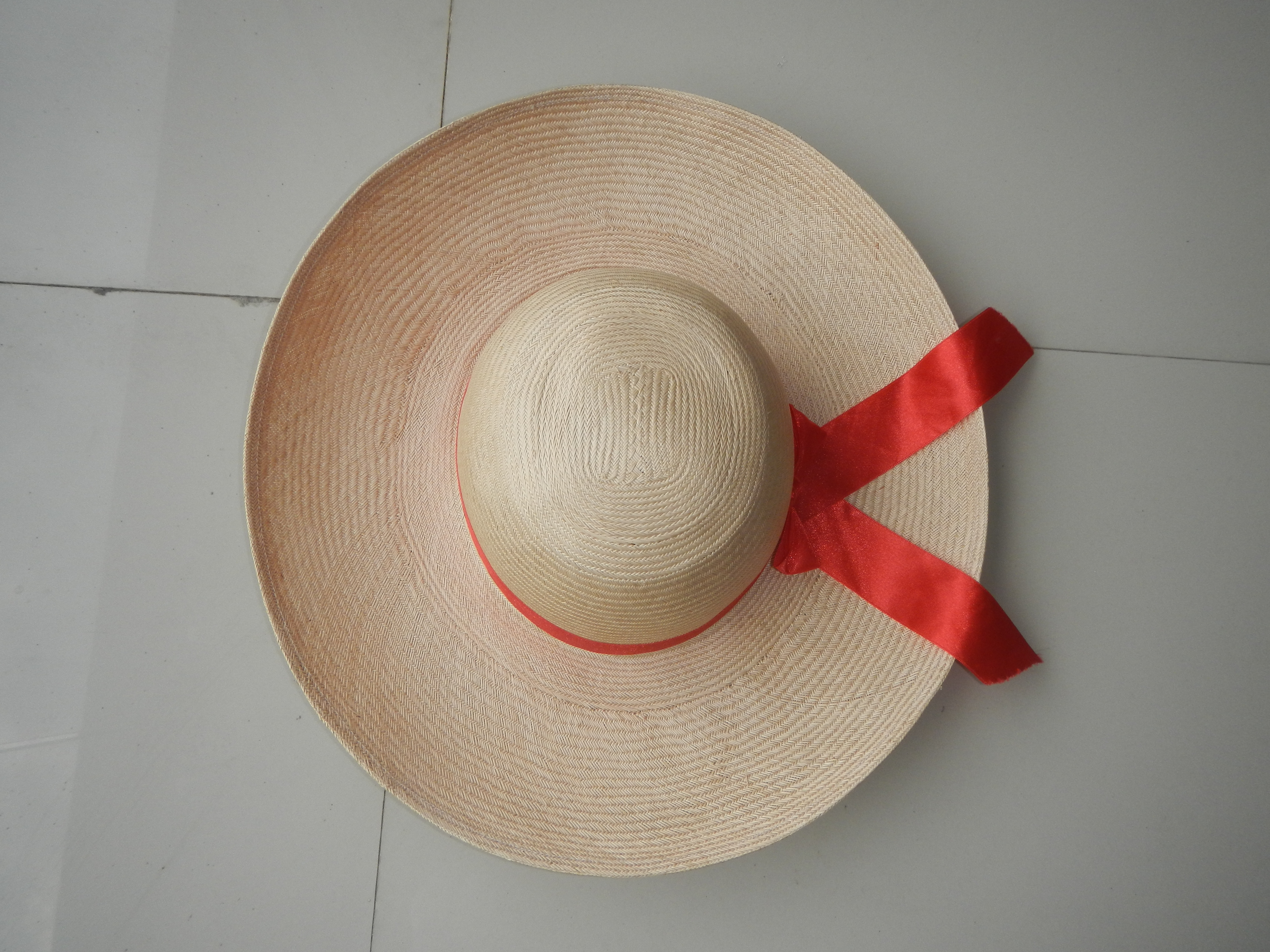 Baliwag Pasalubong Center (Pagala, Maharlika Highway) Pasalubong in Barangay Pagala, 14°58'14"N 120°53'26"E Baliuag, Bulacan, Bulacan province, (accessed from Cagayan Valley Road, Baliuag-Pulilan-Guiguinto, Bulacan) Pan-Philippine Highway, also known as the Maharlika "Nobility/freeman" Highway or Asian Highway 26, Cagayan Valley Road (Note: Judge Florentino Floro, the owner, to repeat, Donor Florentino Floro of all these photos hereby donate gratuitously, freely and unconditionally all these photos to and for Wikimedia Commons, exclusively, for public use of the public domain, and again without any condition whatsoever).